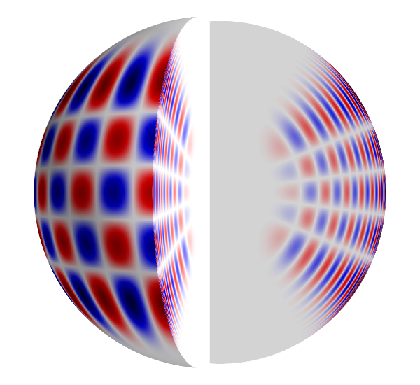 Illustration of a solar pressure mode (p-mode) with radial order n=14, angular degree l=20 and azimuthal order m=16. The surface shows the corresponding spherical harmonic. The interior shows the radial displacement computed using a standard solar model.[1] This plot was created using this Python script. ↑ “The Current State of Solar Modeling”, in Science, volume 272, 1996, Bibcode: 1996Sci...272.1286C, pages 1286